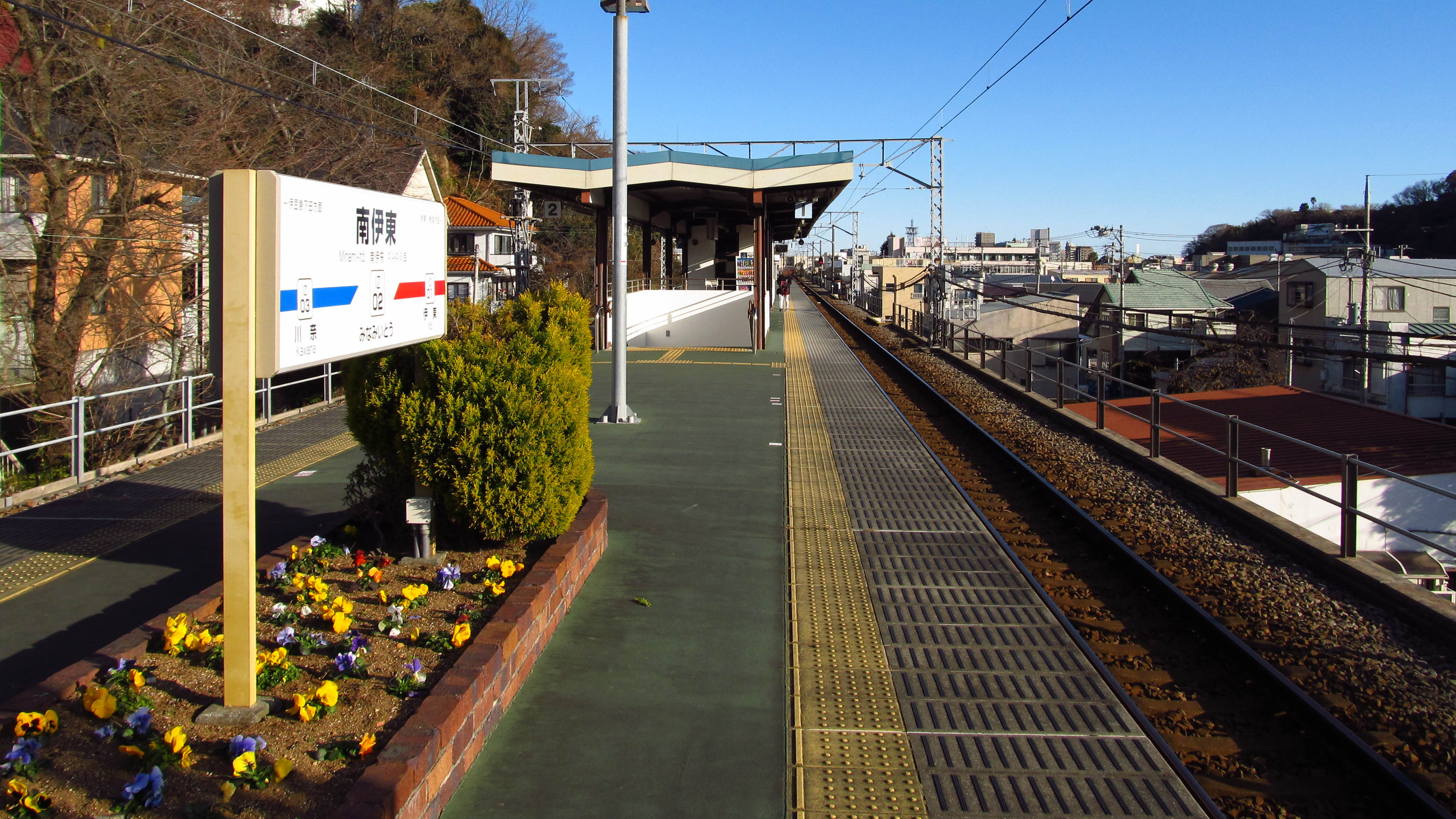 The platform at Minami-Itō Station on the Izu Kyūkō Line in Itō city, Shizuoka Prefecture, Japan